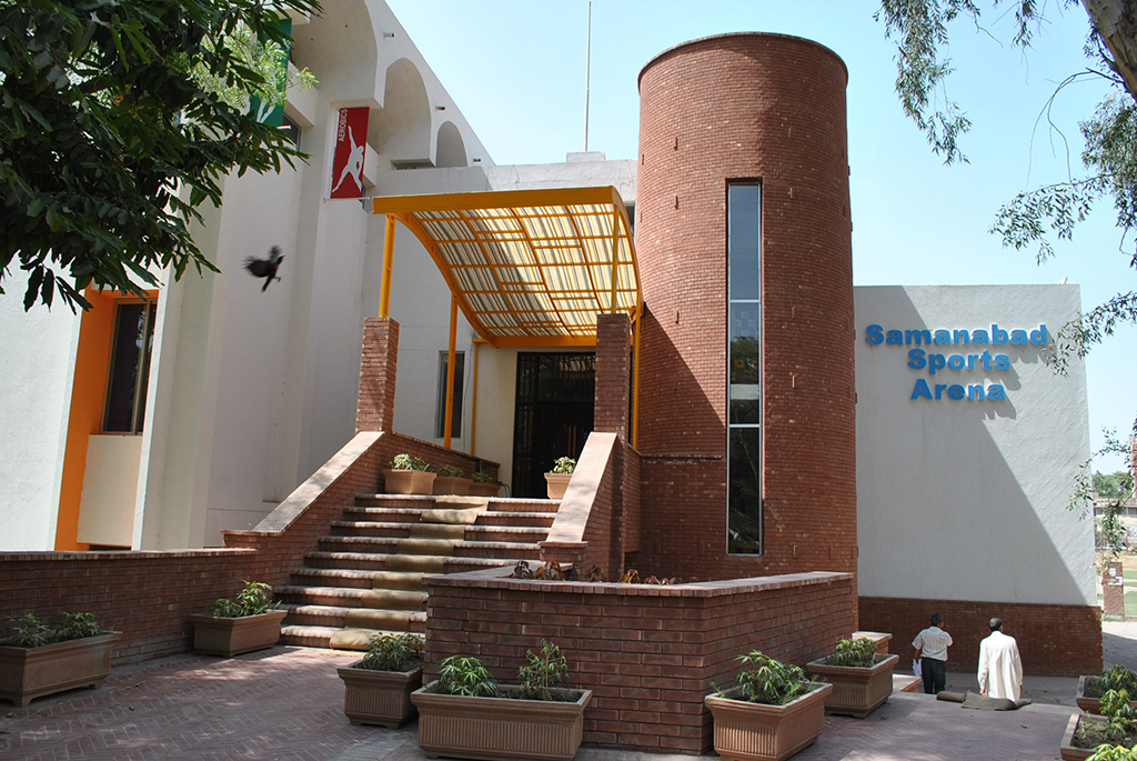 A view of Samanabad Sports Arena from outside.